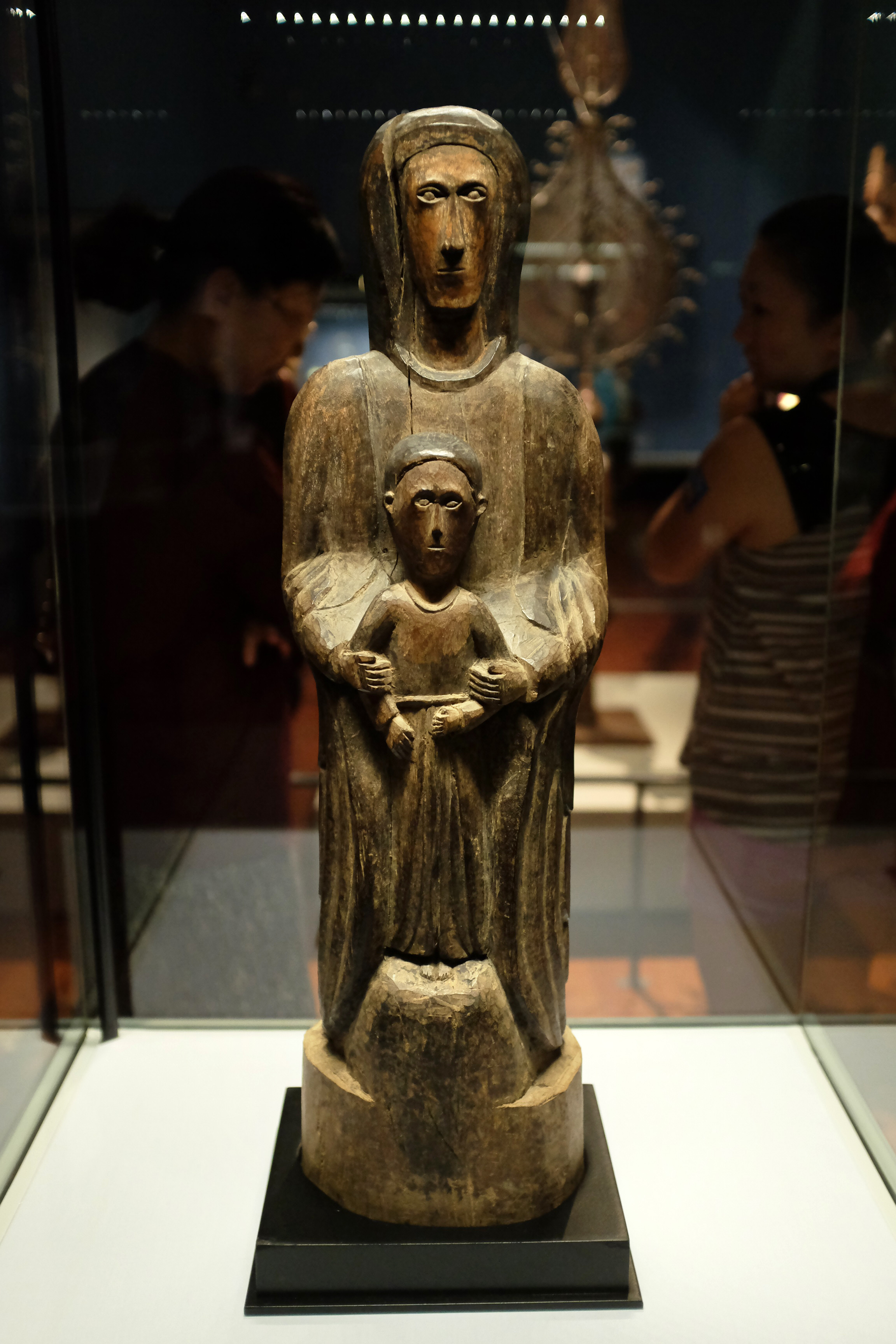 Virgin and child. Probably East Timor, 19th century. Wood, pigments. This unusual image shows the Virgin Mary standing with the boy Christ. This specific arrangement may be a local artist's interpretation of a Western sculpture. Timorese sculptors may have seen Medieval works in prints or books.